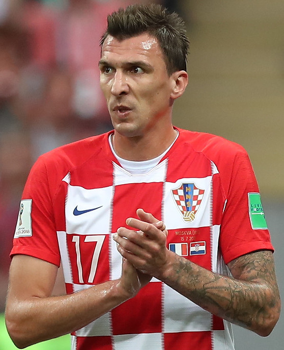 Mario Mandžukić (left) playing for Croatia at the 2018 FIFA World Cup Final.